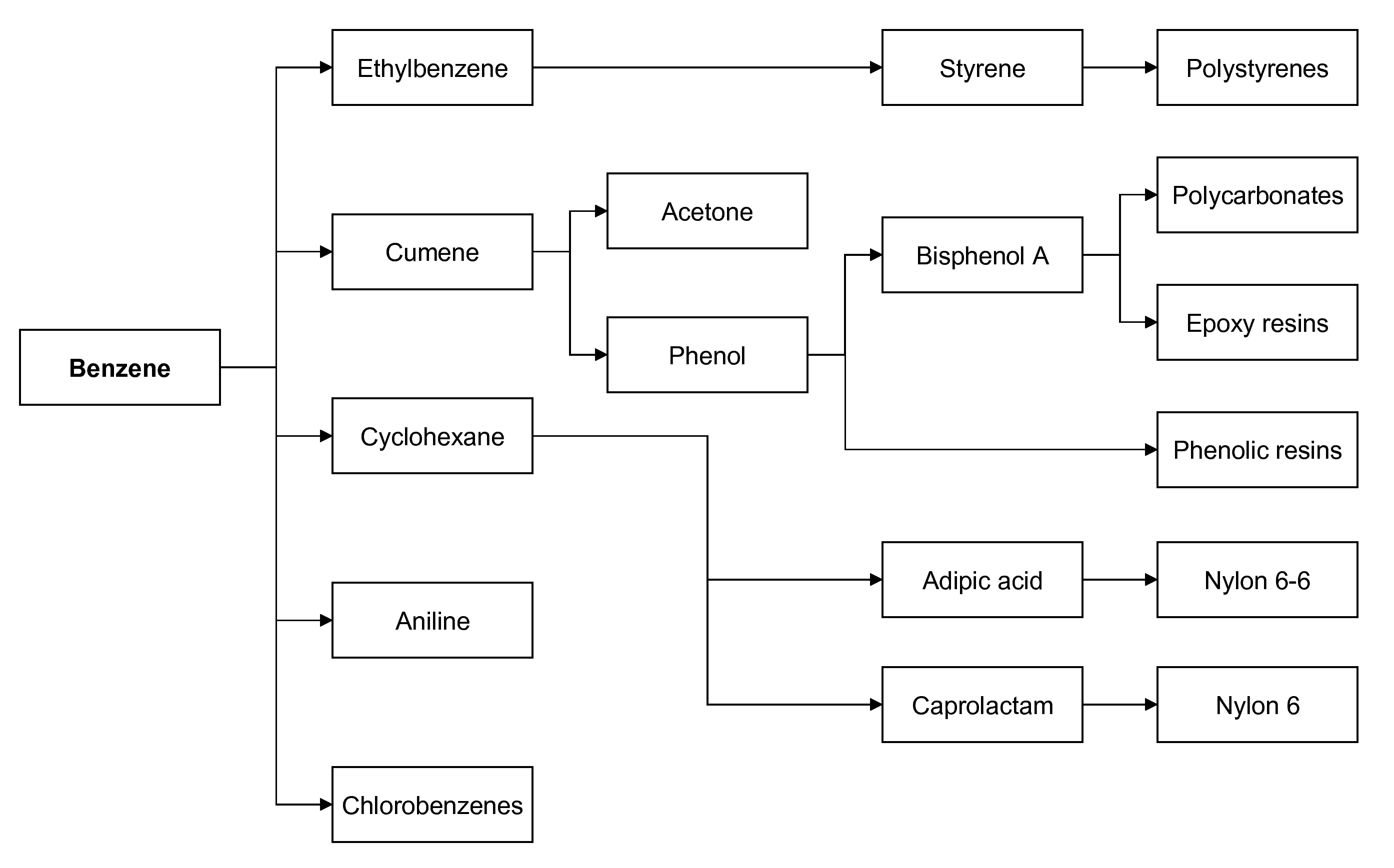 Major uses of benzene, based on information from U.S. International Trade Commission Publication 3590